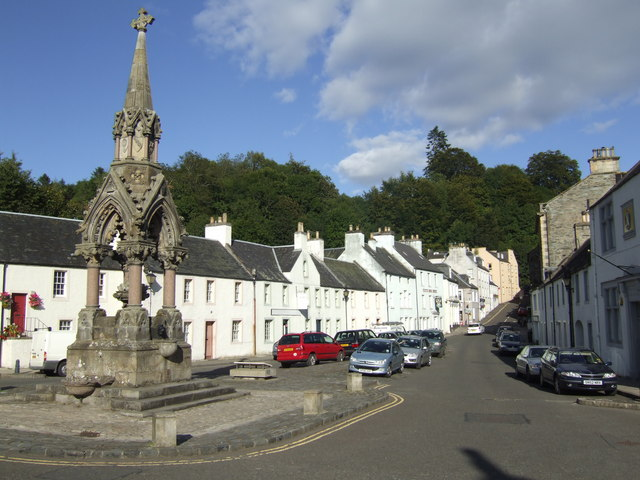 Dunkeld Market Place and Fountain A fine small town in the Perthshire Highlands.